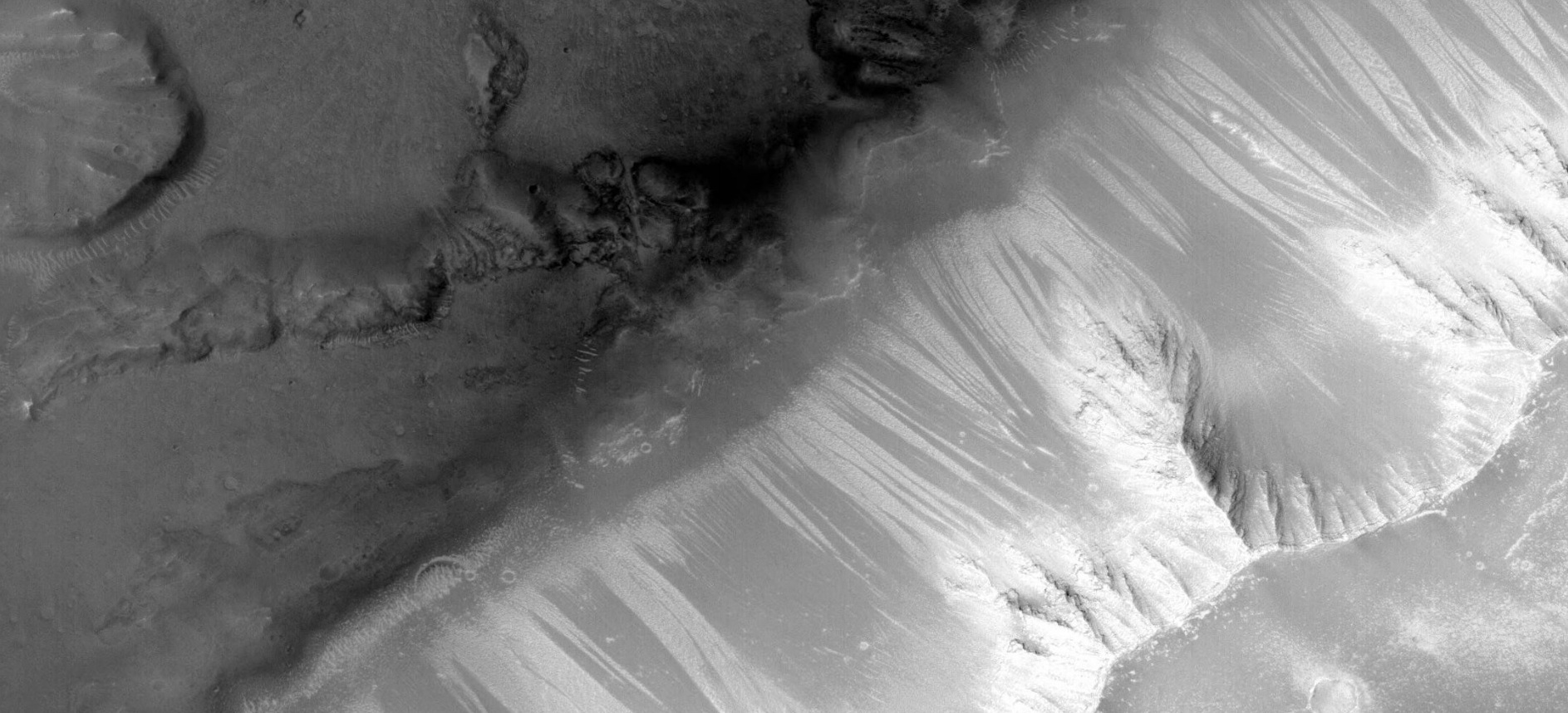 Wide context view for layers in Noctis Labyrinthus, as seen by CTX camera on MRO. Location is 10.049 S and 264.937 E.